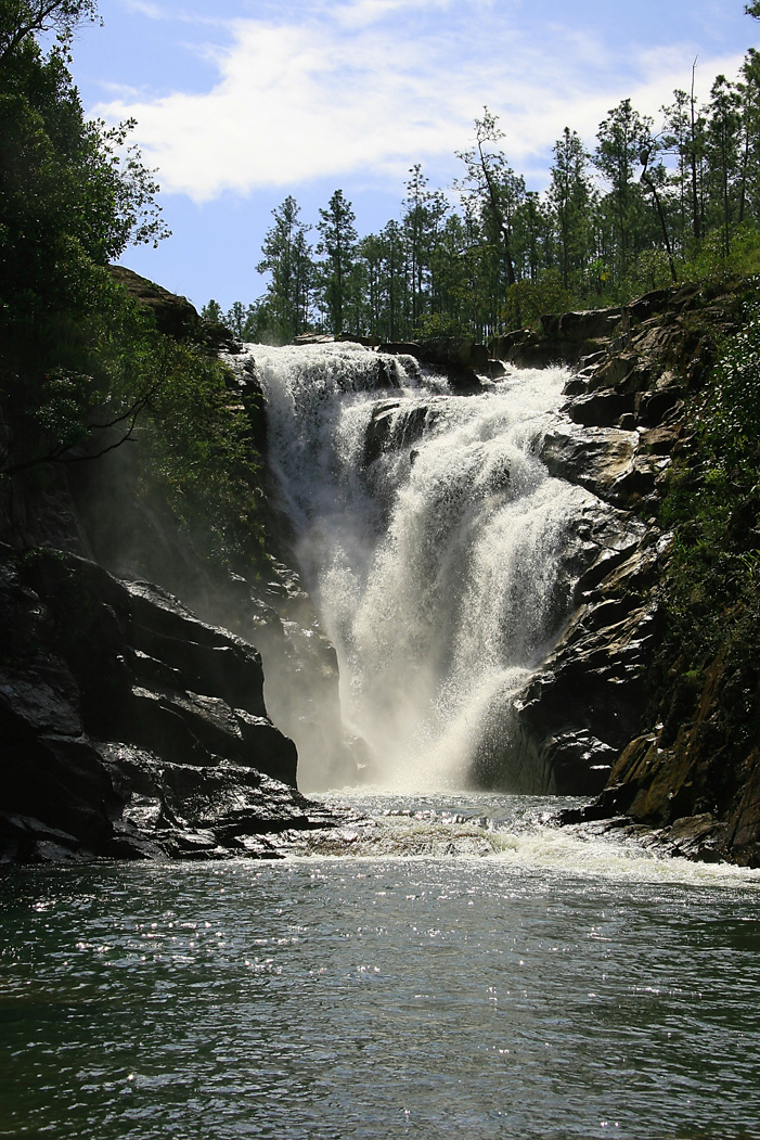 Big Rock Falls, in the Mountain Pine Ridge Forest Reserve of the Cayo District of southern central Belize.